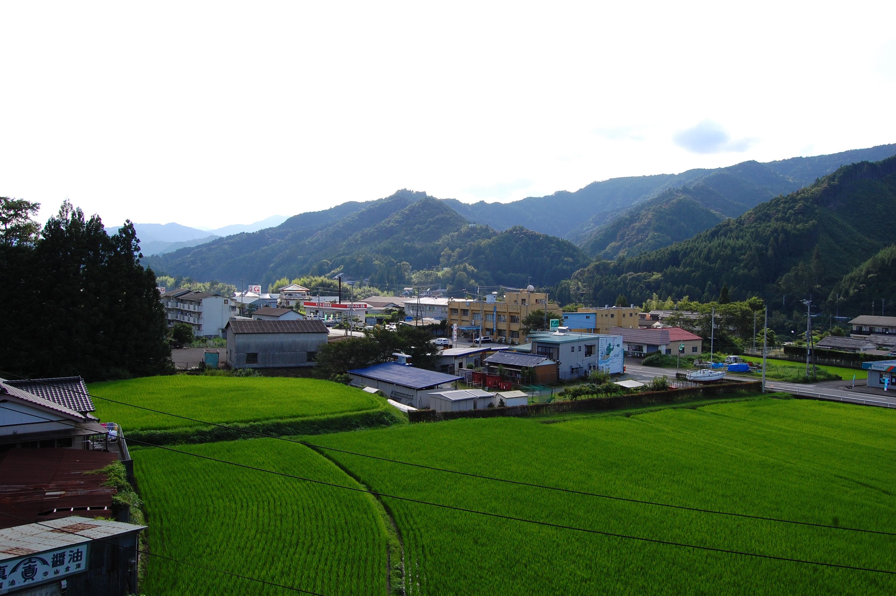 Motoyama, Kochi Prefecture, Japan.